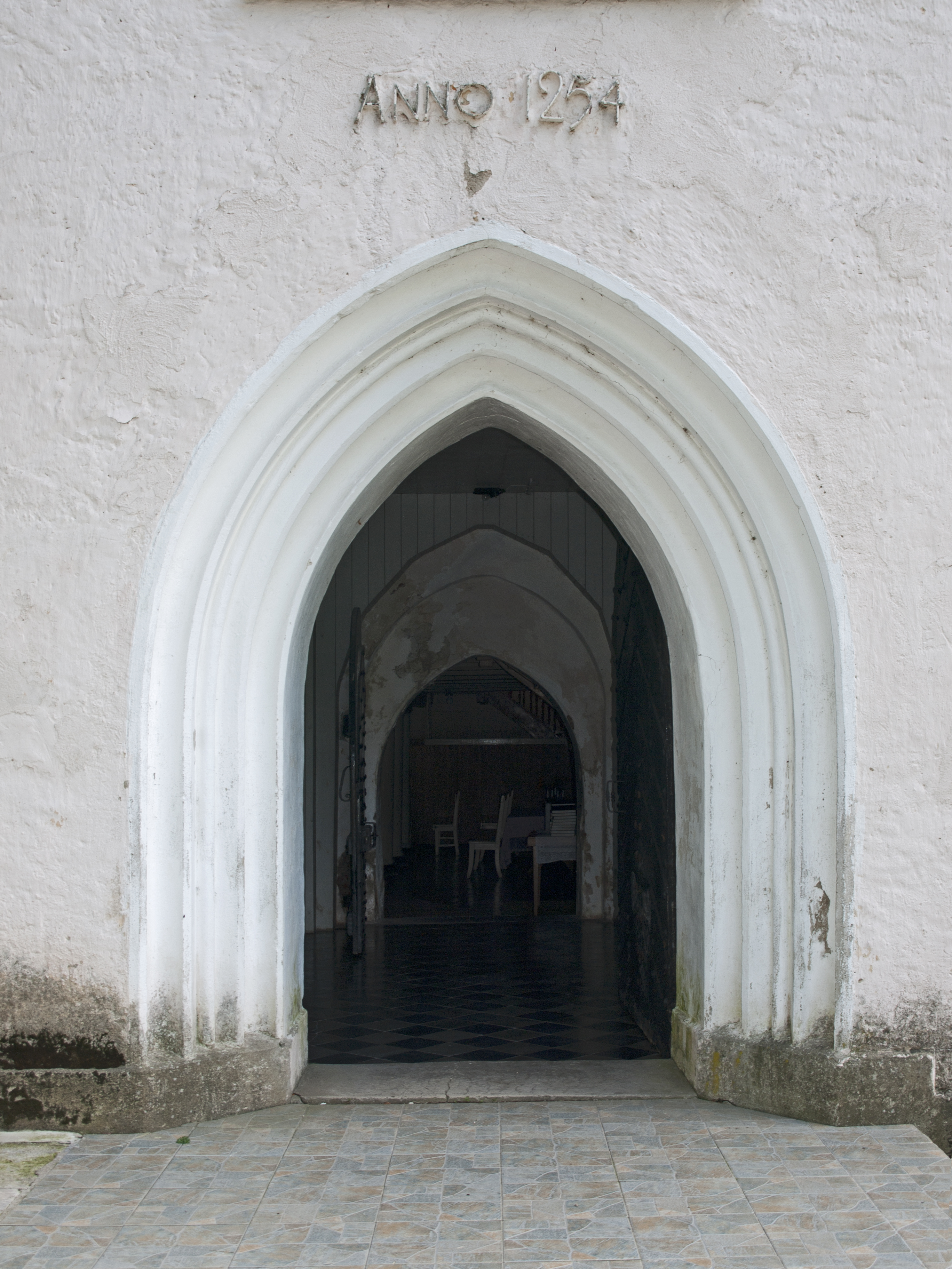 Portal of church of Saint John, Aizpute